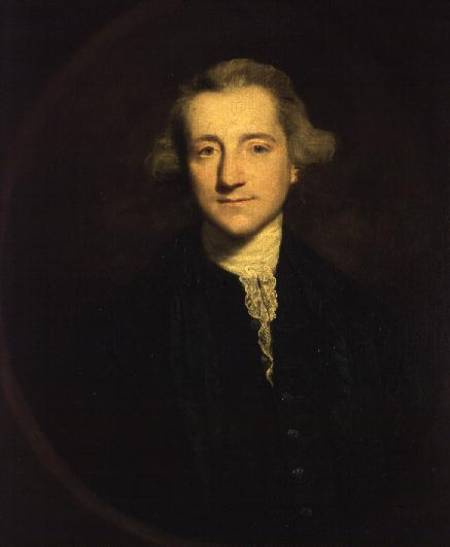 Portrait, oil on canvas, of Henry Vansittart (1732–1770) by Sir Joshua Reynolds (1723–1792)